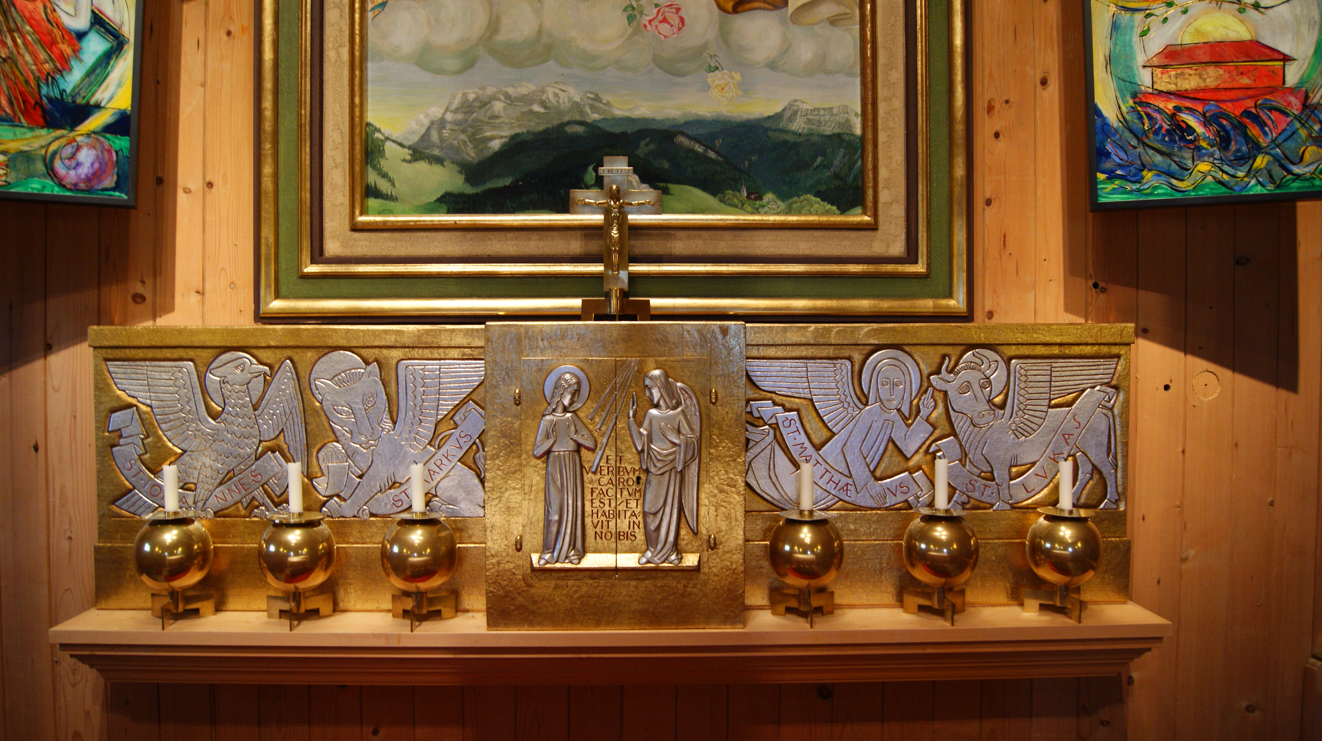 Chapel hl. Theresia in Ratzen in Schwarzenberg, Vorarlberg, Austria. Built in 1932 according to the plans of the architect F. Fuchsberger from Munich. Inaugurated on 31 July 1932 by Bishop S. Waitz. Tabernacle from Kaspar Albrecht (1889-1970) from Au-Rehmen.